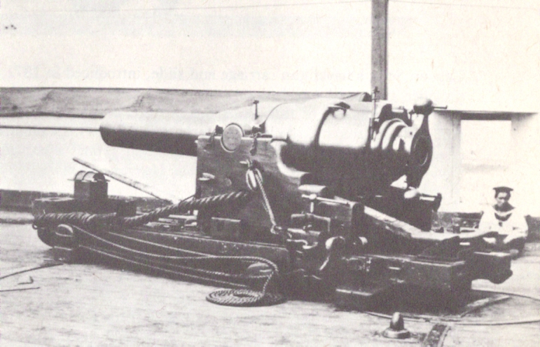 A British naval Armstrong 7-inch (178 mm) 110-pounder rifled breech-loading gun on a wooden slide carriage.